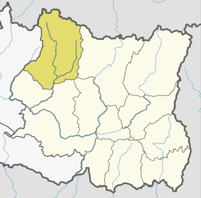 Solukhumbu district